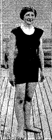 Swedish swimmer Emy Machnow